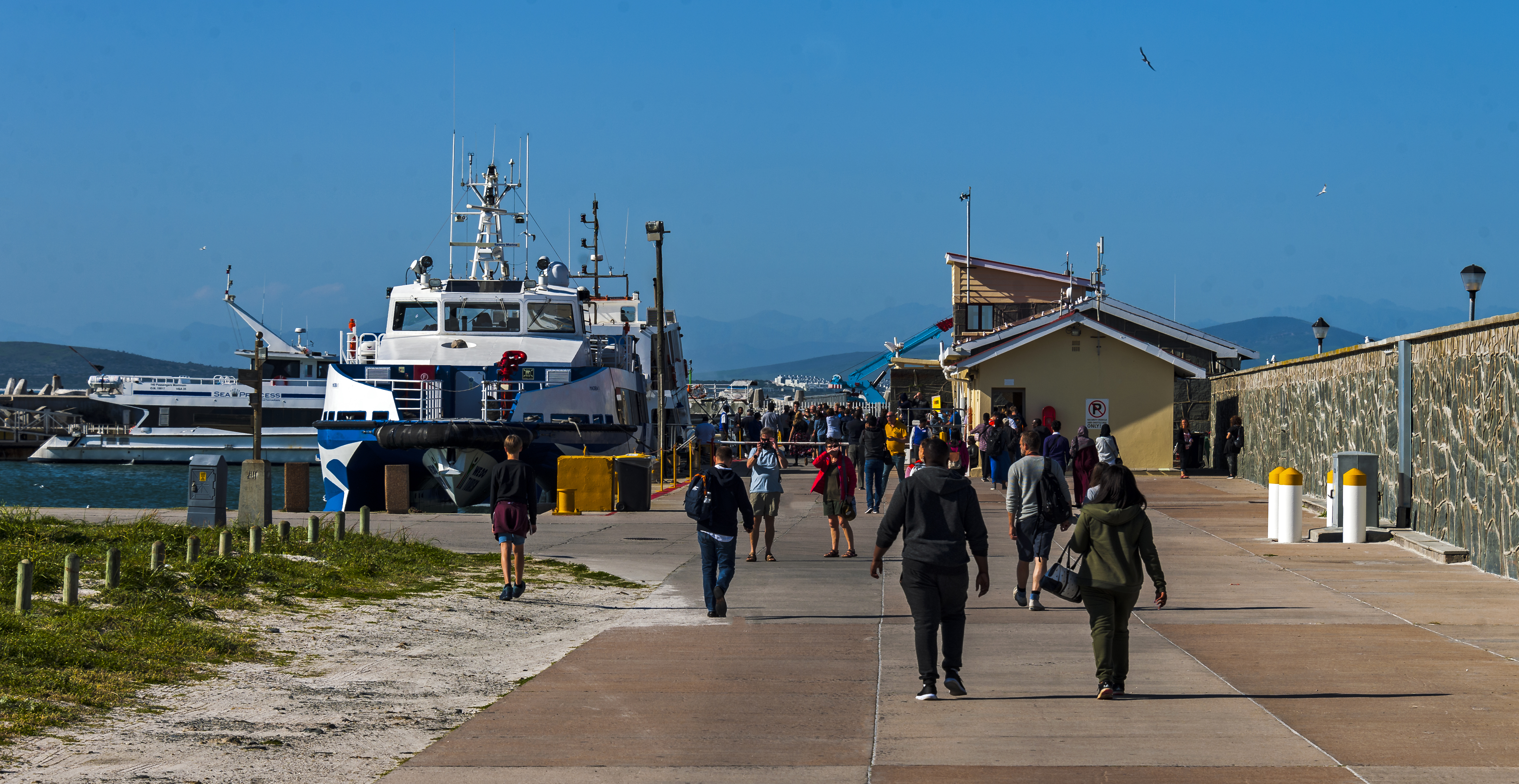 Tourists returning to the ferries back to Cape Town after their visit to Robben Island